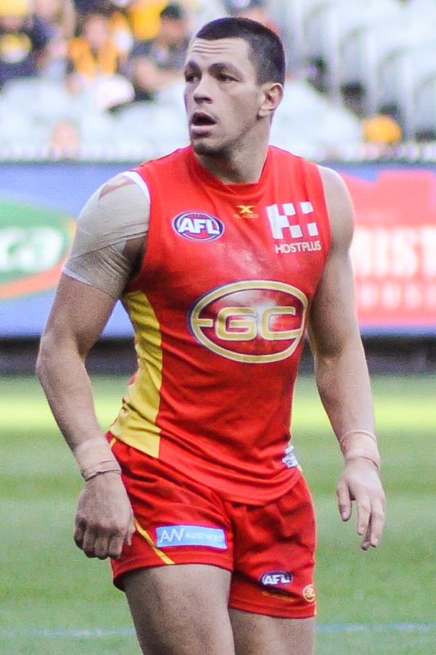 Jesse Lonergan during the AFL round twelve match between Melbourne and Collingwood on 10 June 2017 at the Melbourne Cricket Ground in Melbourne, Victoria.